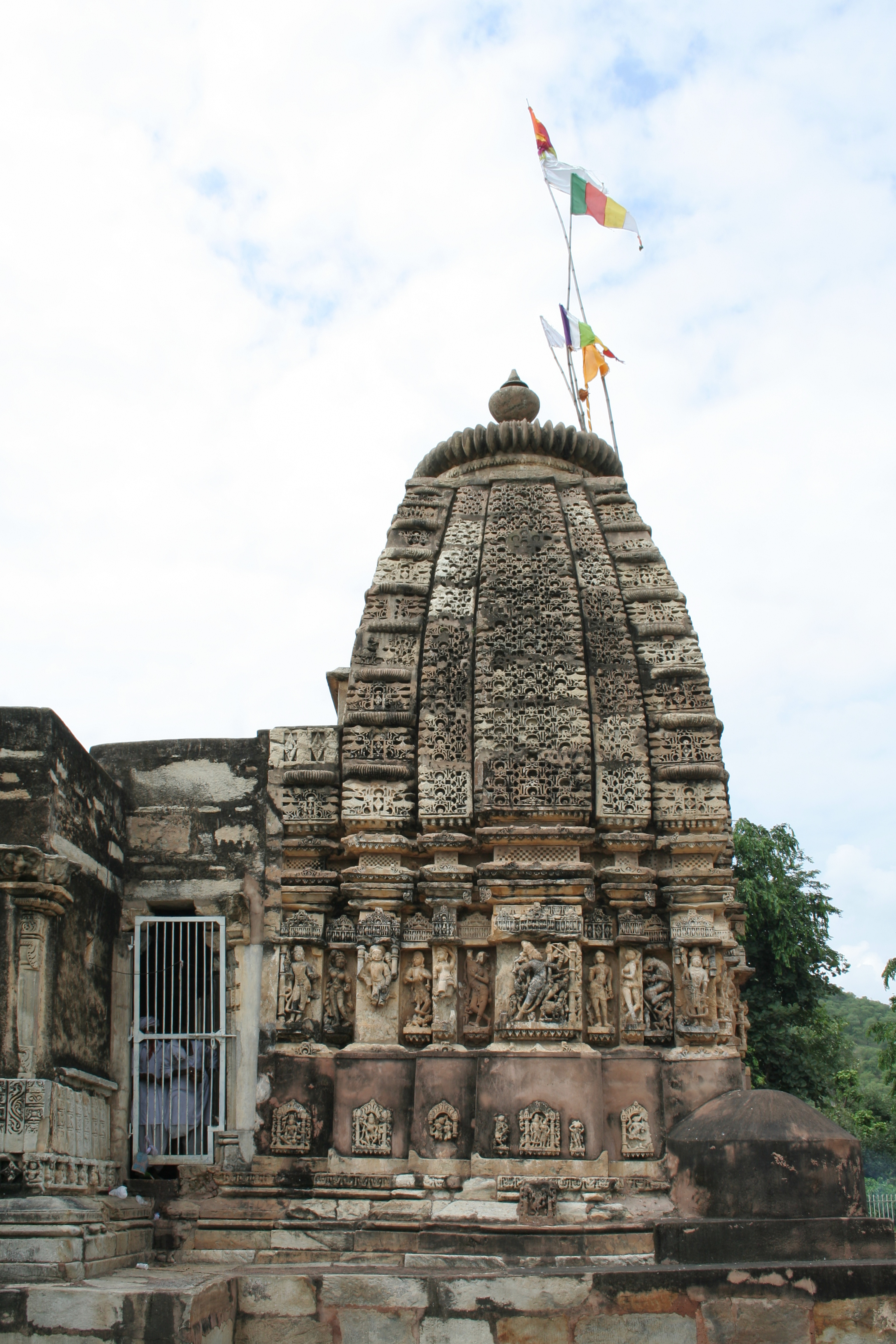 Exterior, Neelkanth temple, Alwar district, Rajasthan, India.